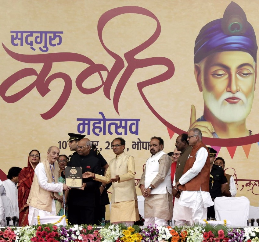 Acharya Rewa Prasad Dwivedi receiving Kabir Samman from President of India, Mahamahim Kovind, one of India's national awards sponsored by Madhya Pradesh Government. Chief Minister of Madhya Pradesh, Mr. Shivraj Singh